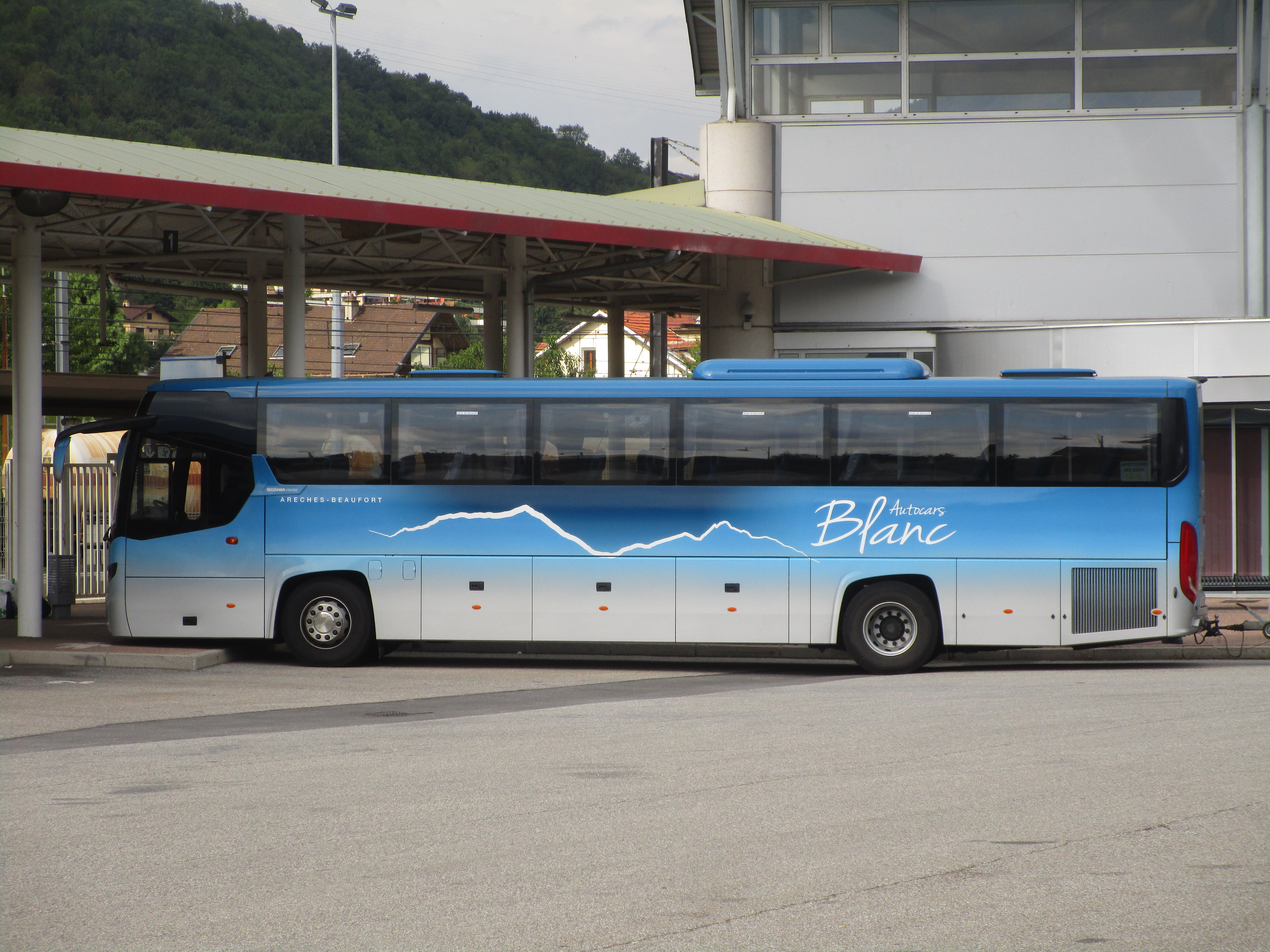 A Scania Interlink (Autocars Blanc) at the bus station (Albertville, France) on August 9, 2017.